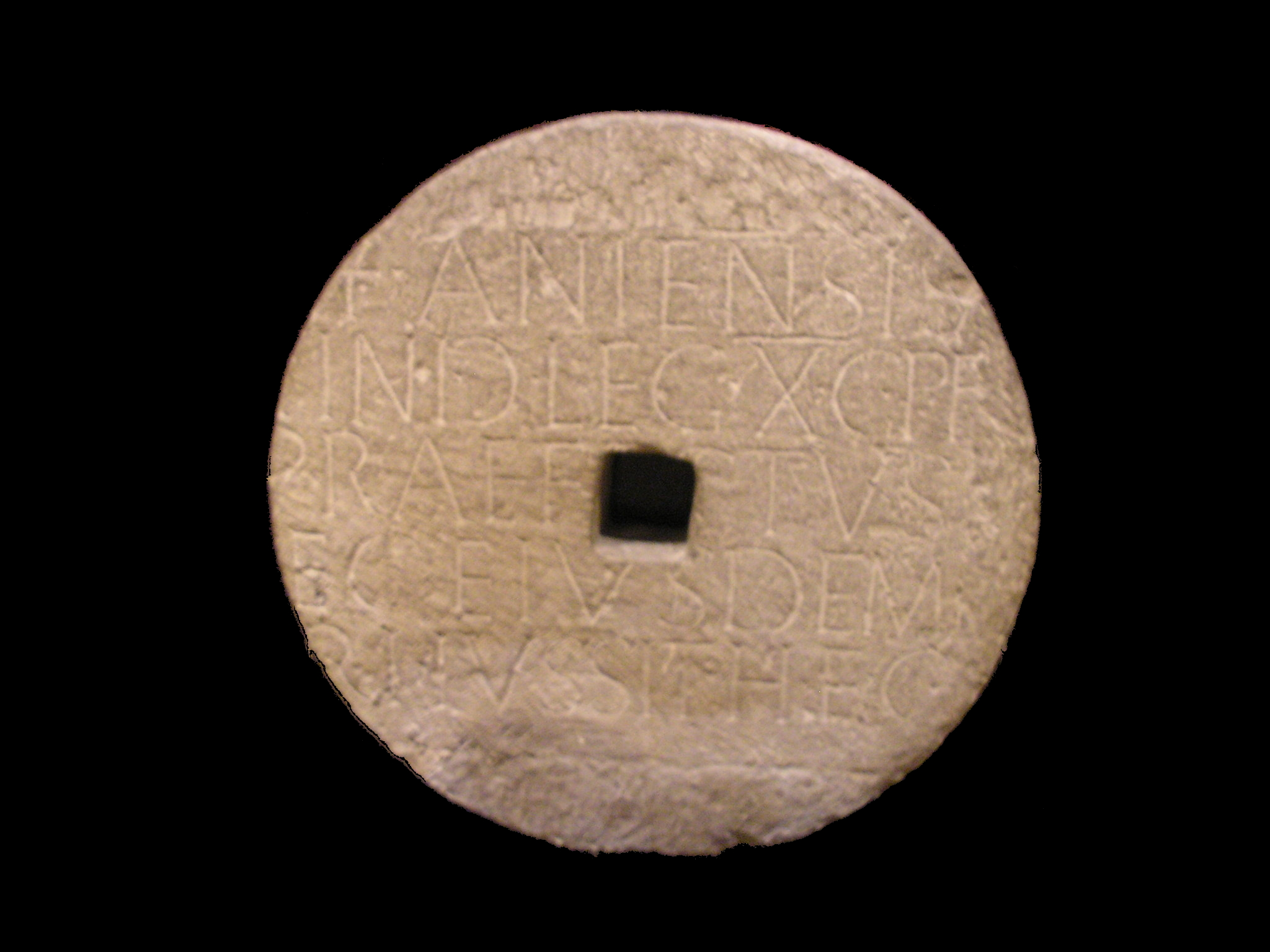 Inscription of a large burial building. Vienna 1, Jasomirgottstr.1 - Stephansplatz 9. Area of the southeastern camp wall, 1st half of the 2nd century A.D. The owner of the grave was camp prefect of the 14th legion and came from Rimini. In a second application the tombstone was rebuilt to a millstone.